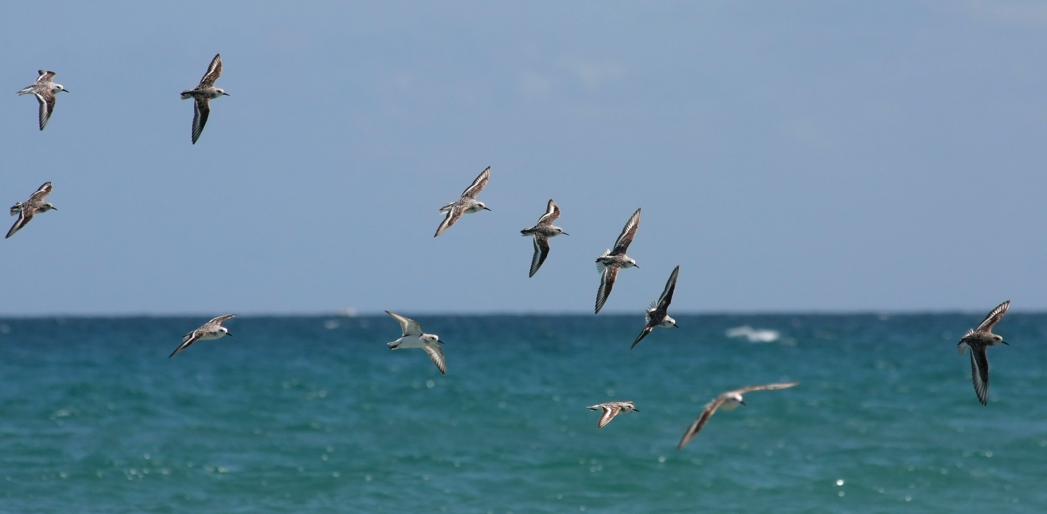 Sanderlings flying in formation.